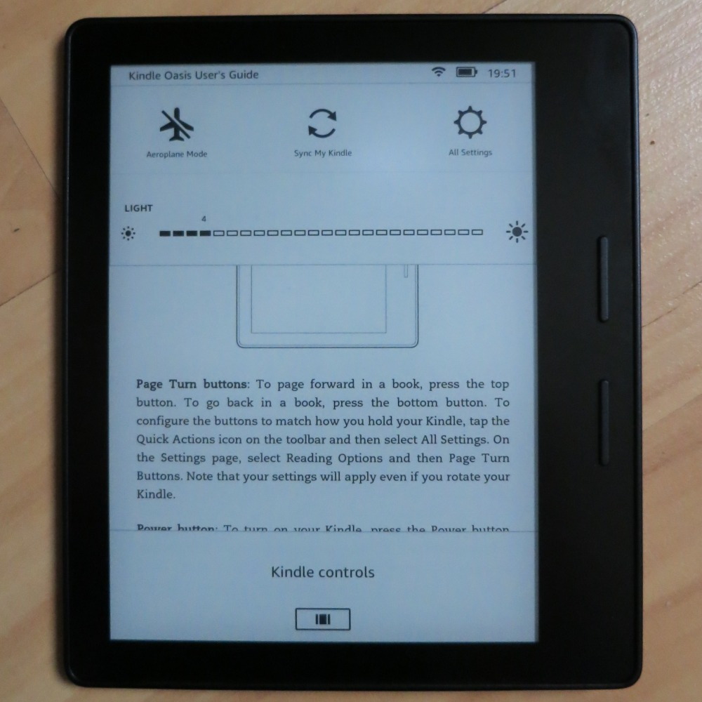 Kindle Oasis (without cover)